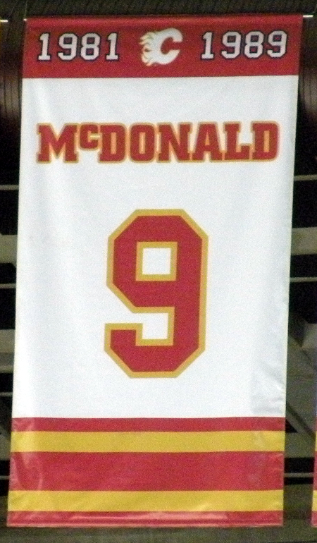 The banner hanging in the rafters of the Scotiabank Saddledome in Calgary, indicating that Lanny McDonald's #9 has been retired by the Flames.